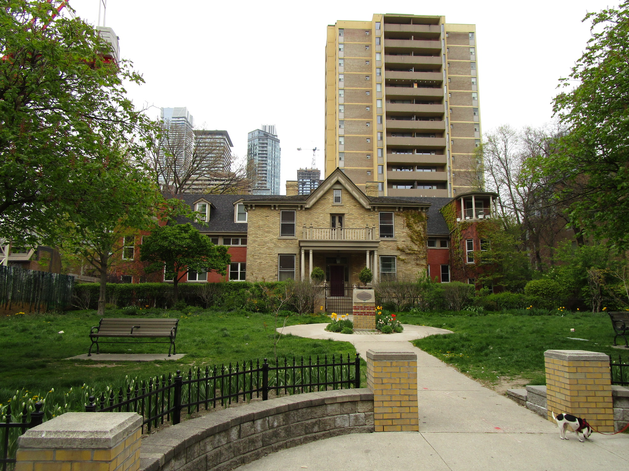 Historic Paul Kane House, on Wellesley, 2017 05 12 -b